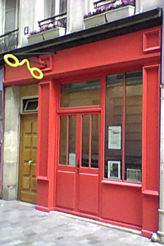 Shop front of the "Cabaret du Père Lunette", rue des Anglais, Paris